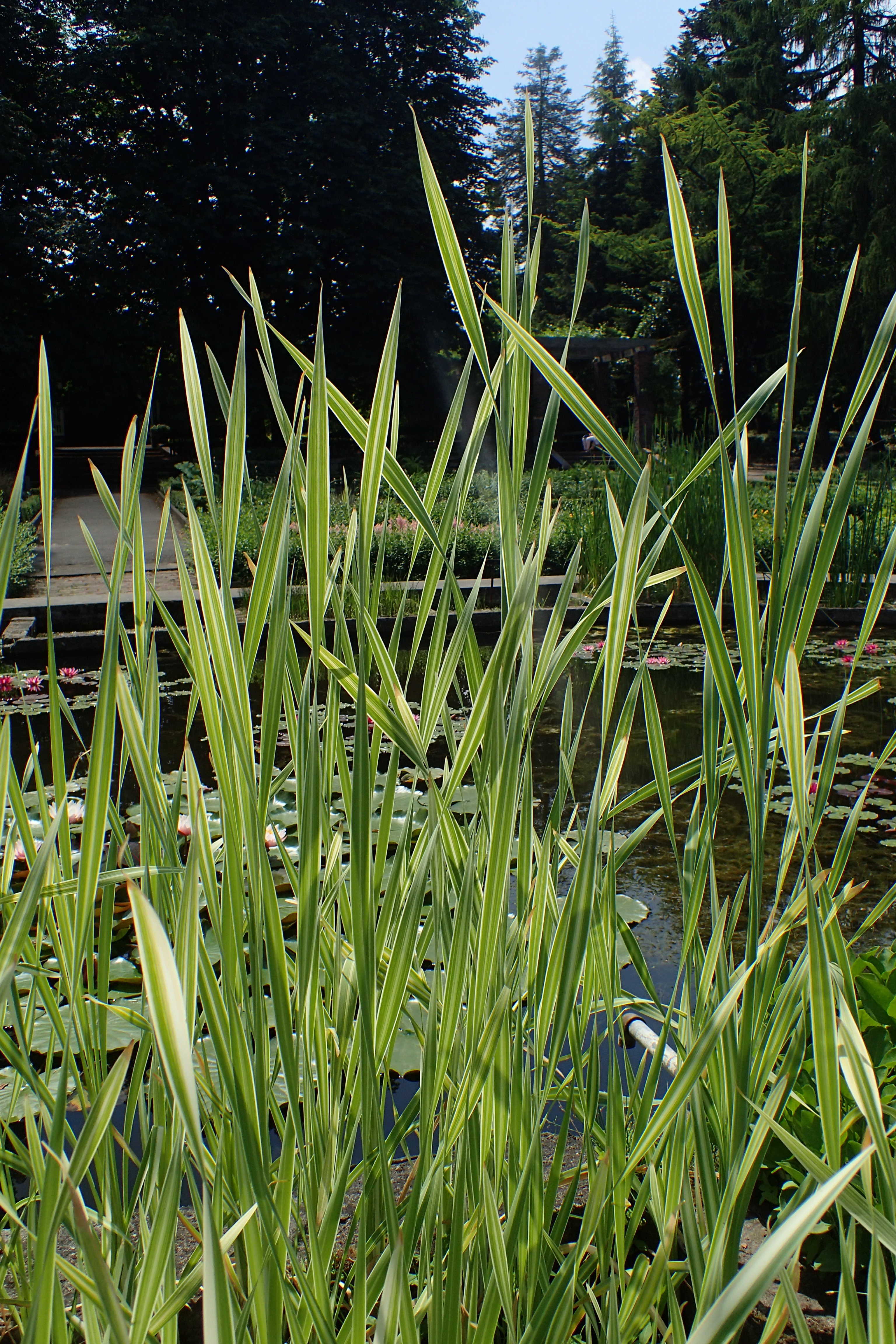 Typha latifolia 'Variegata' in botanical garden in Poznań